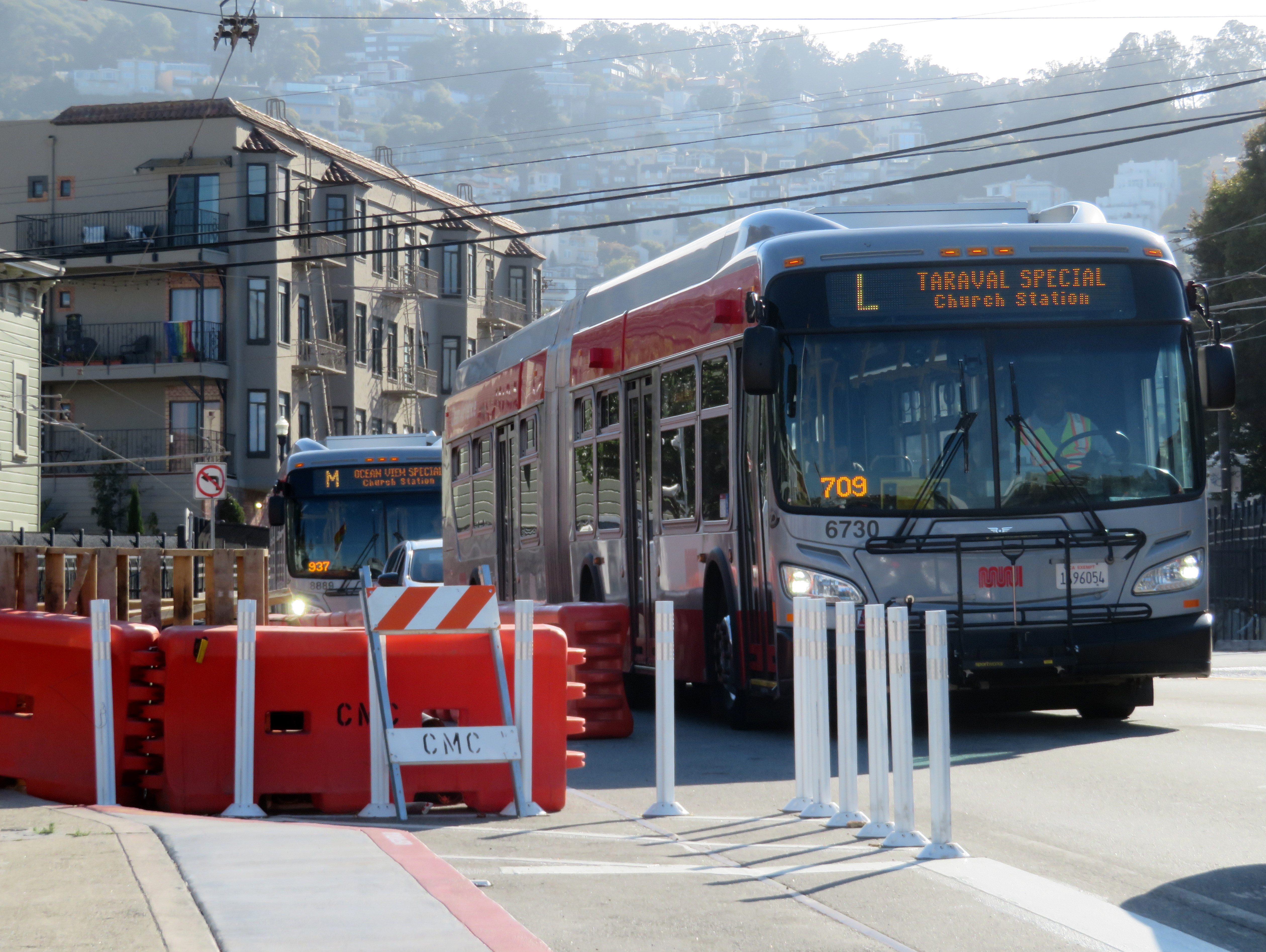 L and M shuttle buses at Castro station in July 2018 during the Twin Peaks Tunnel shutdown